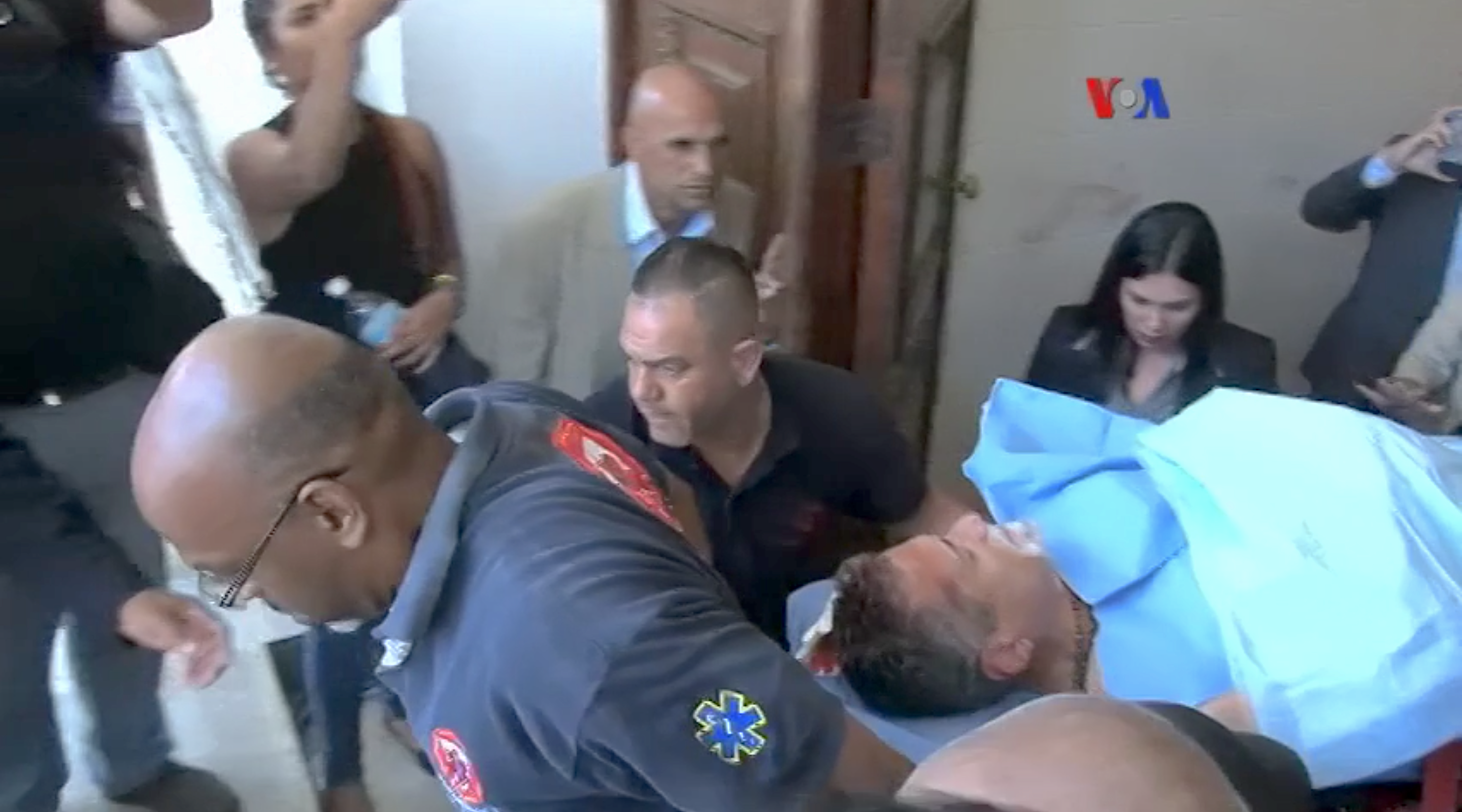 Legislator Americo De Grazia being carried on a stretcher following the attack.